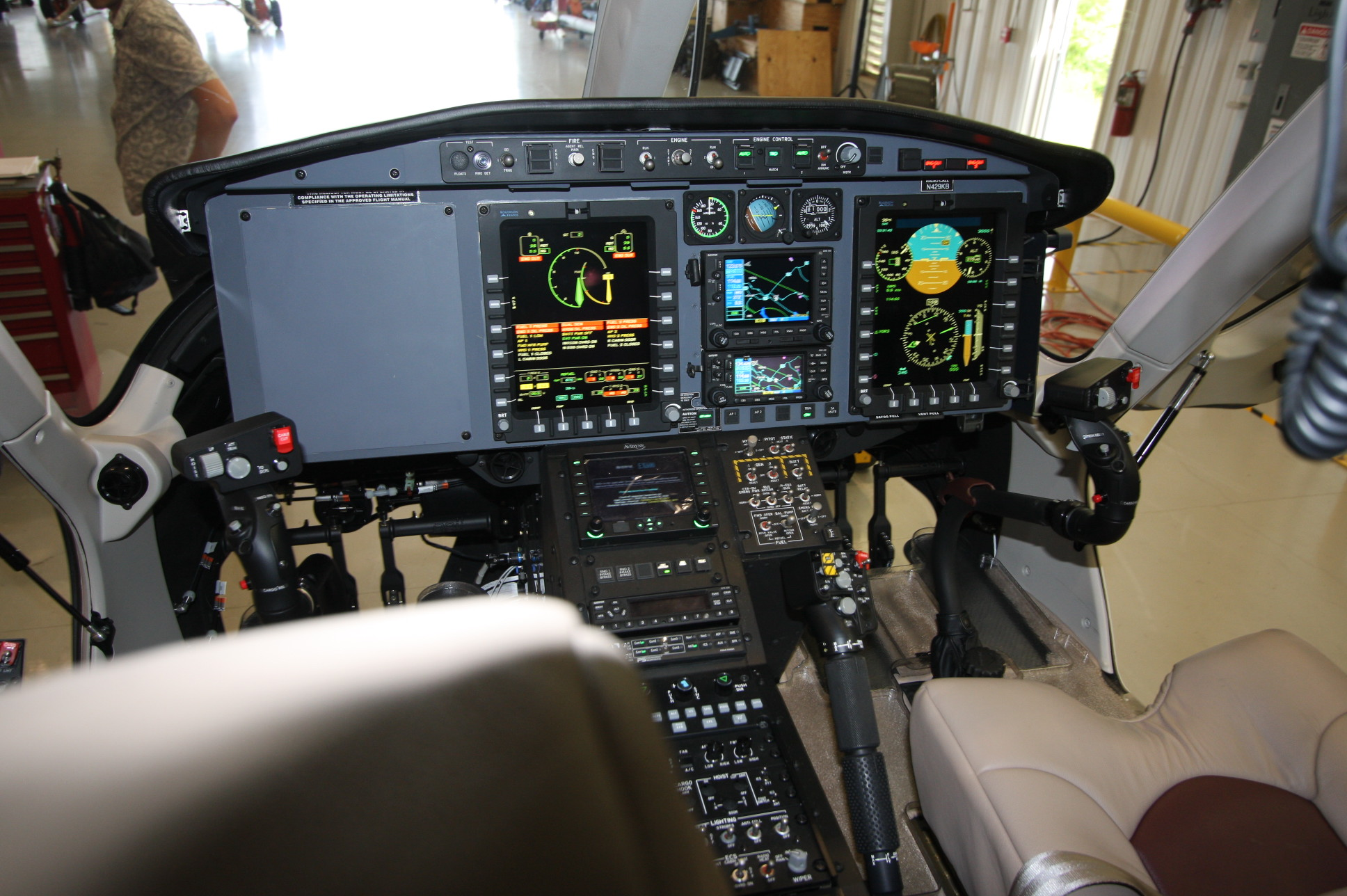 Bell 429 Cockpit